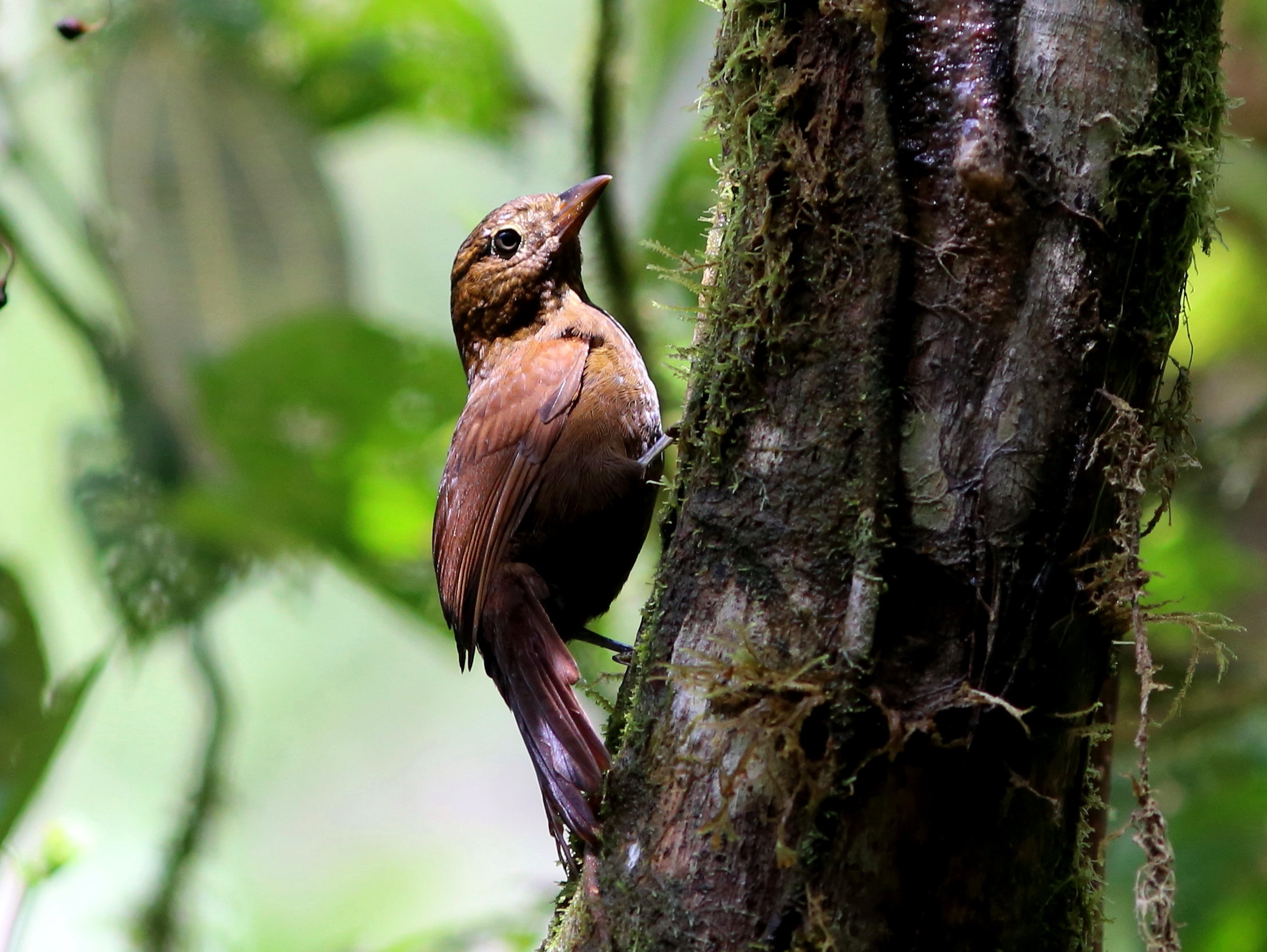 Uniform treehunter; Cerro Montezuma, Risaralda, Colombia